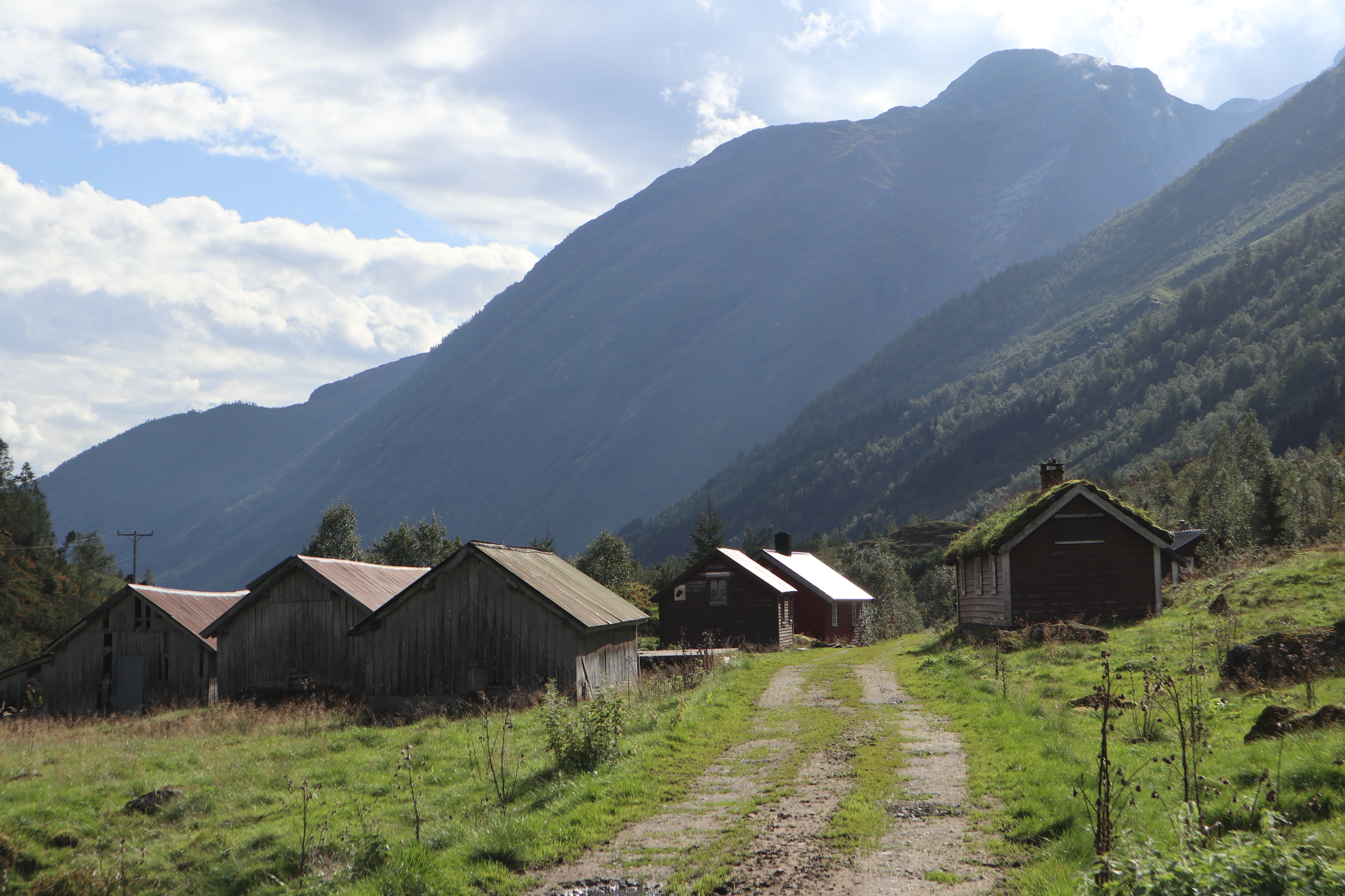 Houses along a road mountain and glacier in background